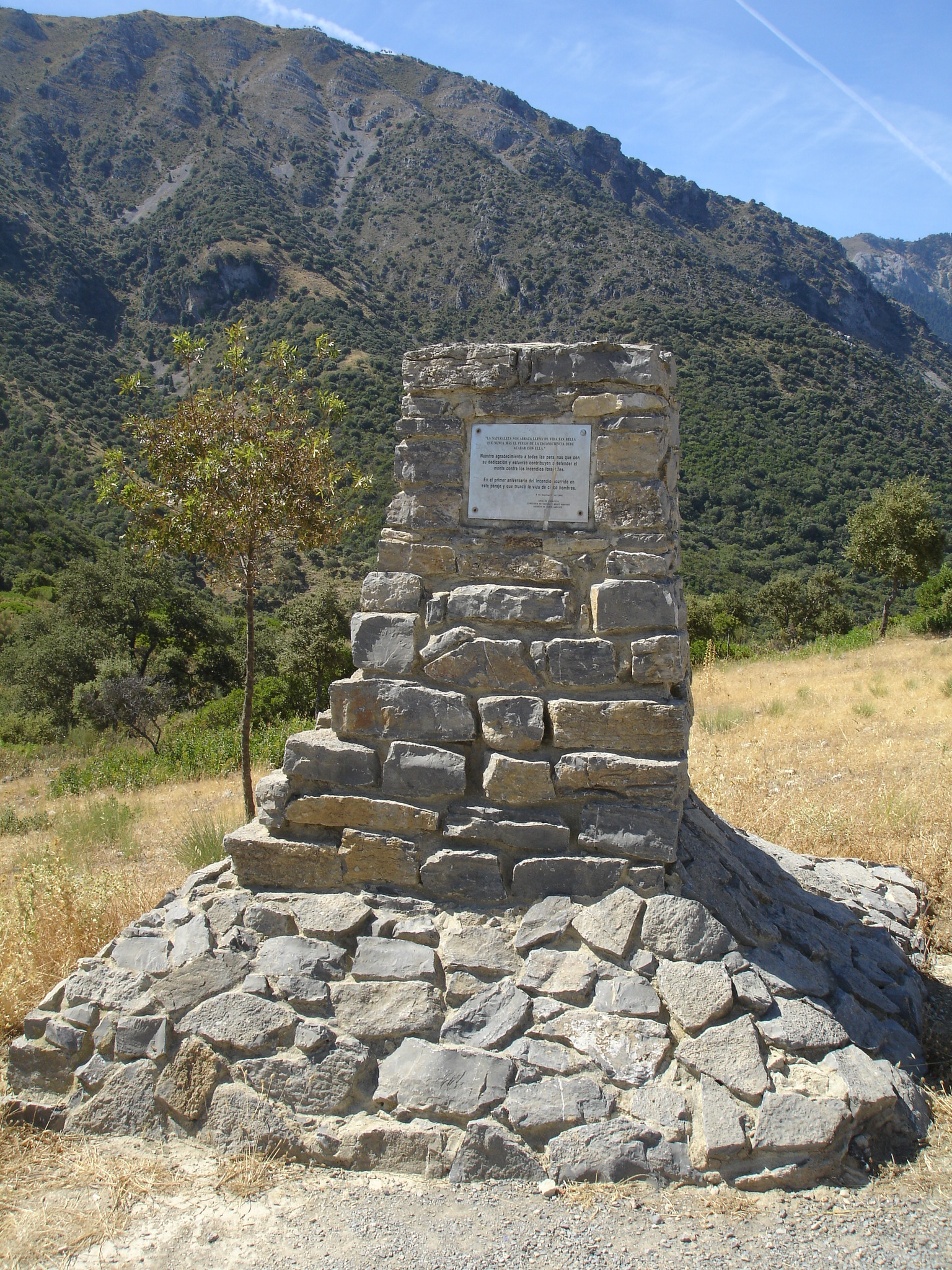 Monument to the firemen died when watering a fire in the mountains (Incendio de Monte Prieto, 1992). Los Acebuches (Grazalema, Spain)